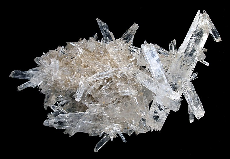 Quartz Locality: Jeffrey Quarry, Jeffrey, Pulaski County, Arkansas, USA (Locality at ) Size: small cabinet, 9.4 x 7.1 x 5.3 cm Quartz var. "Solution Quartz" So-called "solution quartz" from this quarry is supposed to be the best of its type. Solution growth of quartz here produced specimens of a unique brightness and surface sparkle, long prized. I think the moniker has to do with the fact the xls tend to be intergrown with many others in jackstraw groups which are not attached to matrix: The unlikely-looking floater status of these delicate groups thus reflects the fact they were in solution rather than deposited onto country rock. Today, mining of these specimens is done only by (risky) diving using scuba equipment, last I heard. I have not seen any good ones turn up fresh since the 1980s, as well. This specimen is a particularly rich cluster of solution quartz with a dominant crystal ending iin multifaceted terminations. It is mesmerizing, in its complexity at the micro level. And, it happens to be beautiful on a big scale, too! Complete all around, 360 degrees, this specimen is COVERED with crystals. Classic US material, hard to find... According to MinDat: A quarry located at Jeffrey near North Little Rock. Features 3 large, open cuts, now flooded. A rock quarry in Jackfork Sandstone. Started in the 1950's and operated through the 1960's. Reopened in the 1970's for specimens.